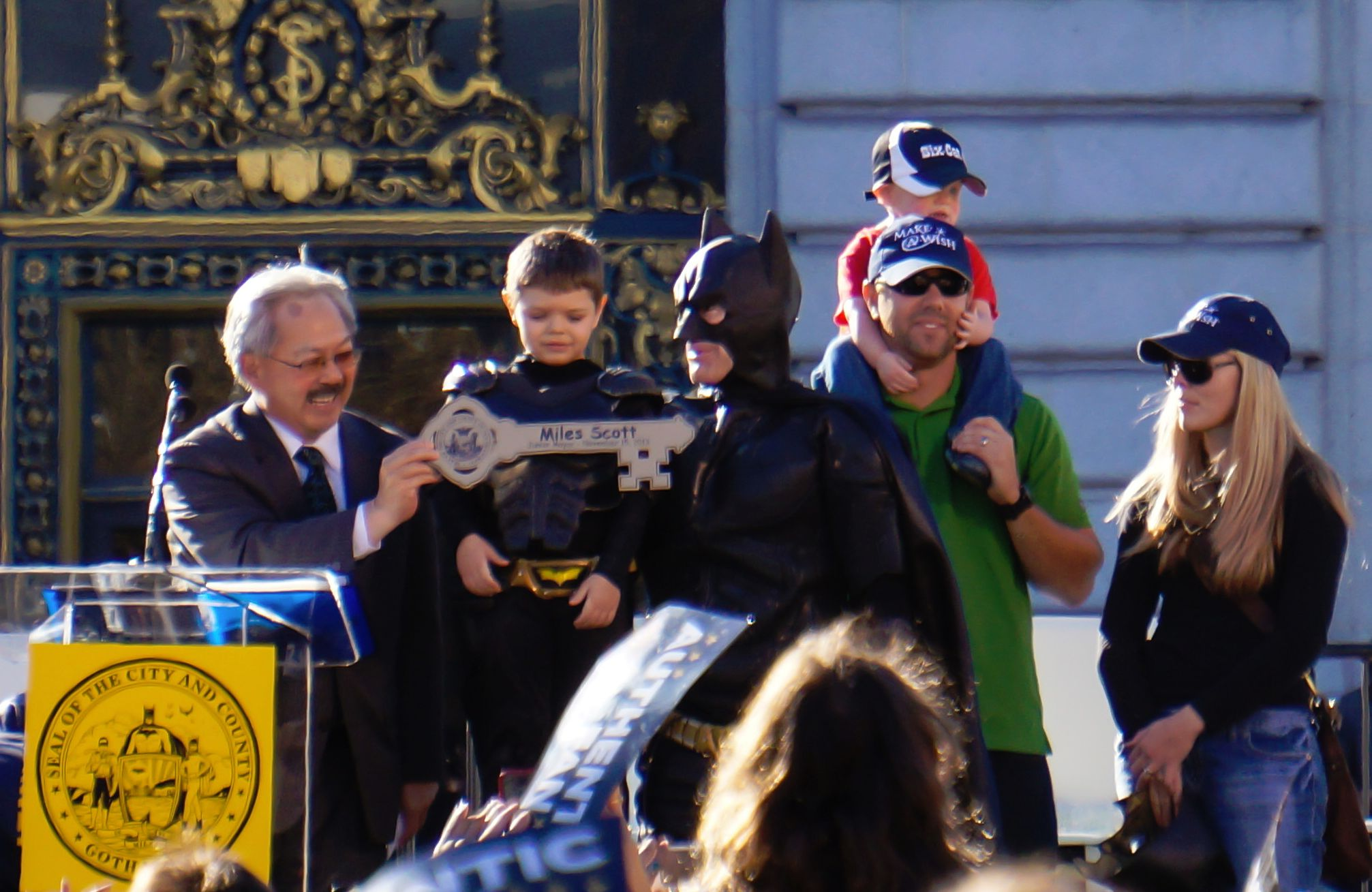 "Batkid" (Miles Scott) receiving the key to the city of San Francisco as part of the Batkid "Make A Wish" event on Nov 15 2013. (Cropped from File:Batkid-Key To City.jpg